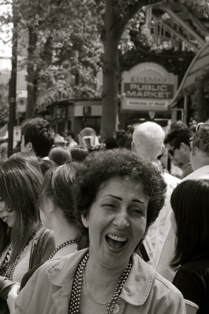 One of my favorite things to photograph is a crowd. It always presents a diverse, ever changing subject, and constantly surprises me with its ability to portray facets of the human experience through moments of silence found the tumult of a multitude. Lucky for me then that I live in Vancouver, where annual street events give me the chance to practice. I feel the reason I love Vancouver the most is exemplified best through the nature of these events. They are multi-ethnic, multicultural, and pervaded by a sense of community and collective pride in our city, even if its as simple as "its cool our city does this." And perhaps best of all these events are a place where people of differing sexual, religious, and political orientations can come together without fear of persecution. This photo was taken at the annual Gay Pride Parade in downtown Vancouver, on Robson street.